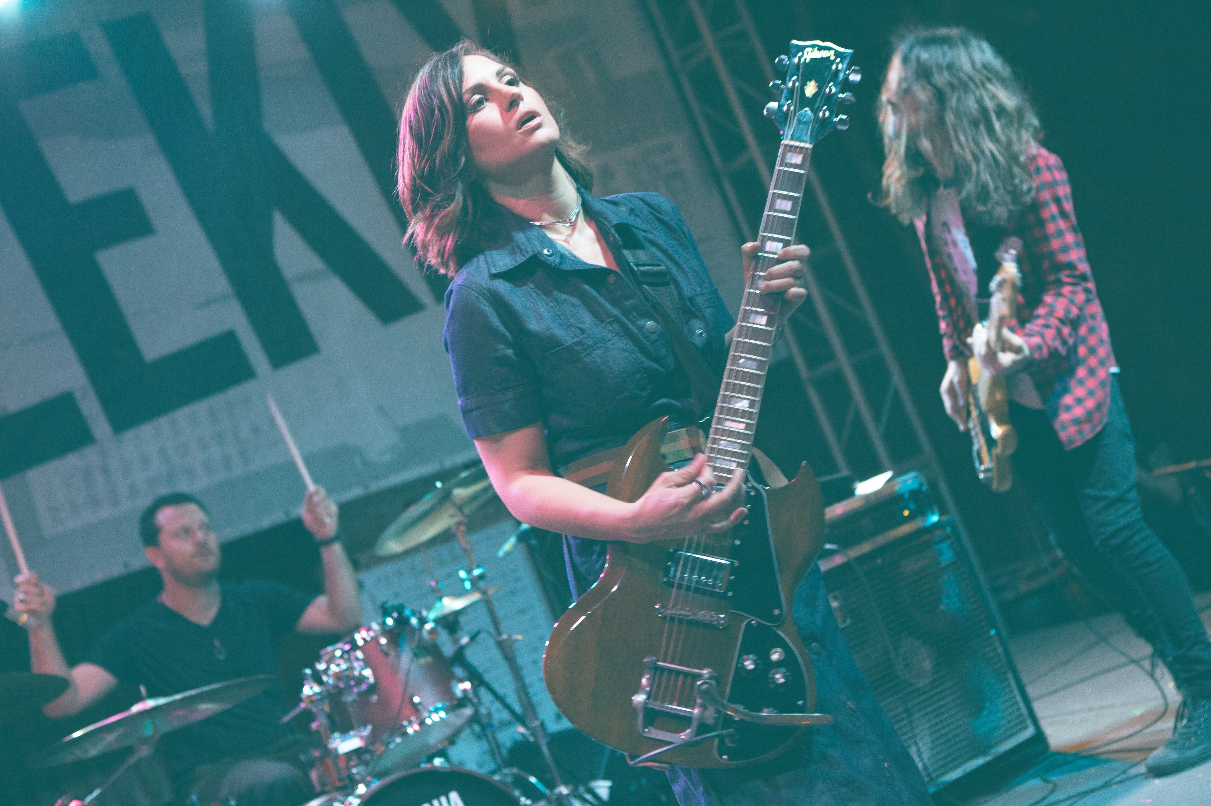 Kat Meoz performing at Chinatown Summer Nights in Los Angeles September 2016.